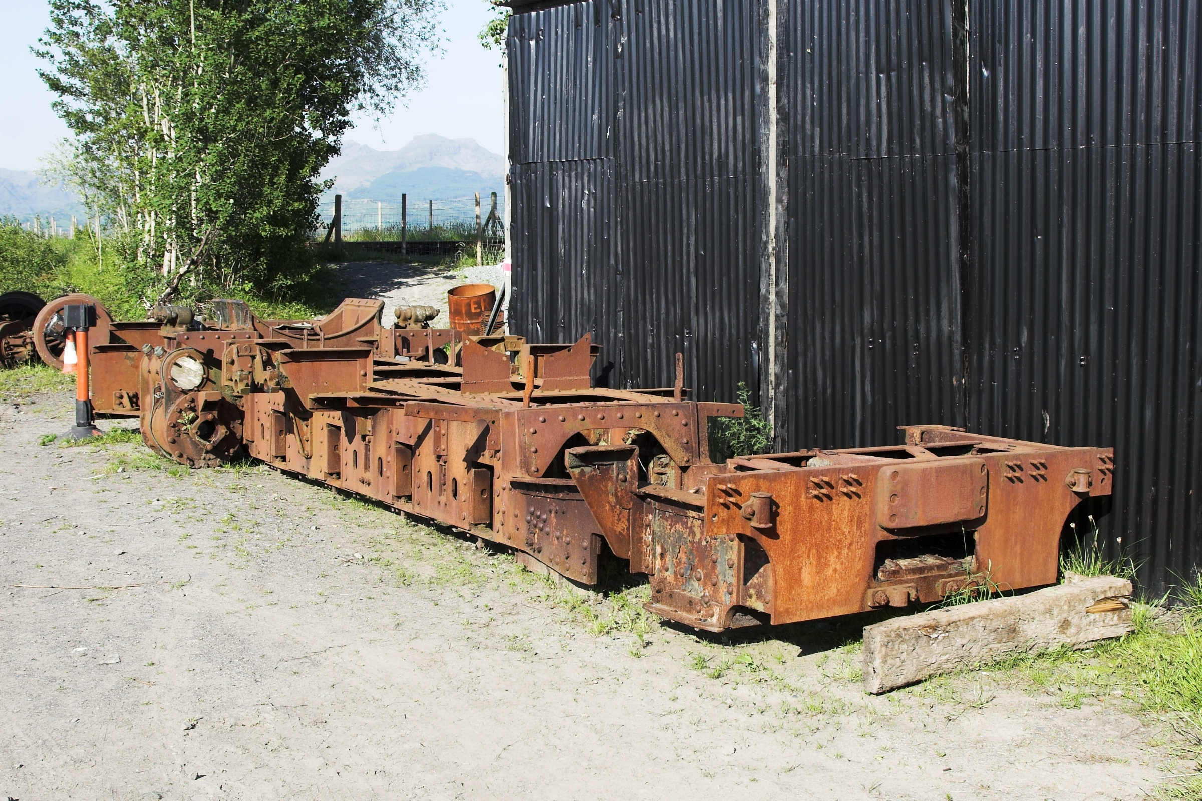 Frames of NG15 No.120 at Gelert's Farm, Porthmadog. Engine is dismantled for possible overhaul.